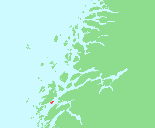 Locator map of Skorpa, Nordland, Norway